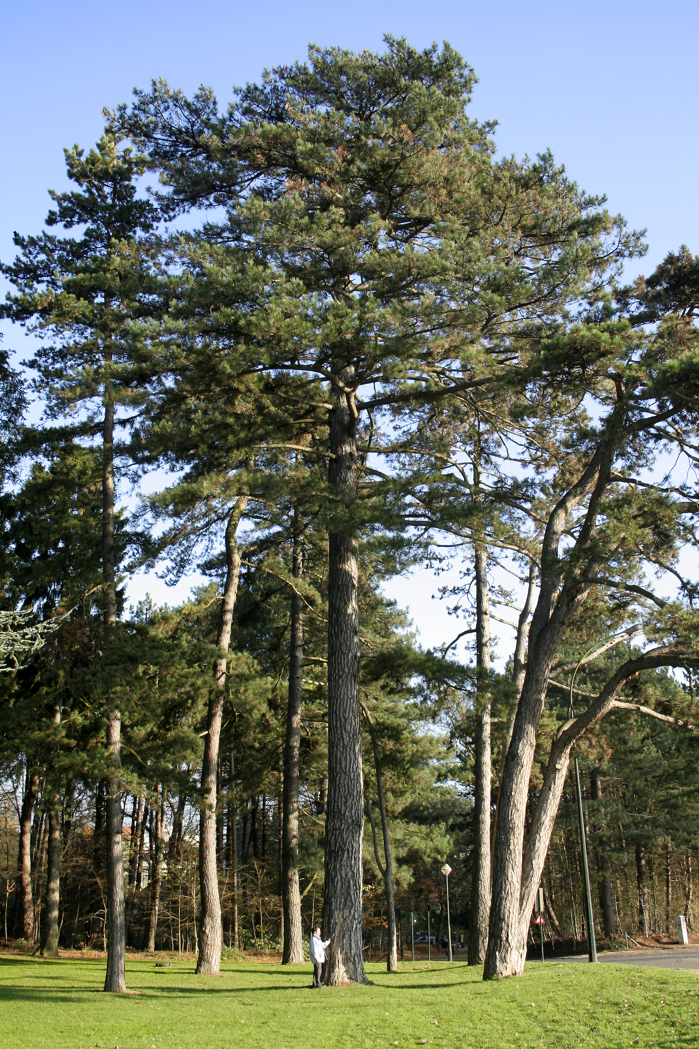 Austrian Pine.